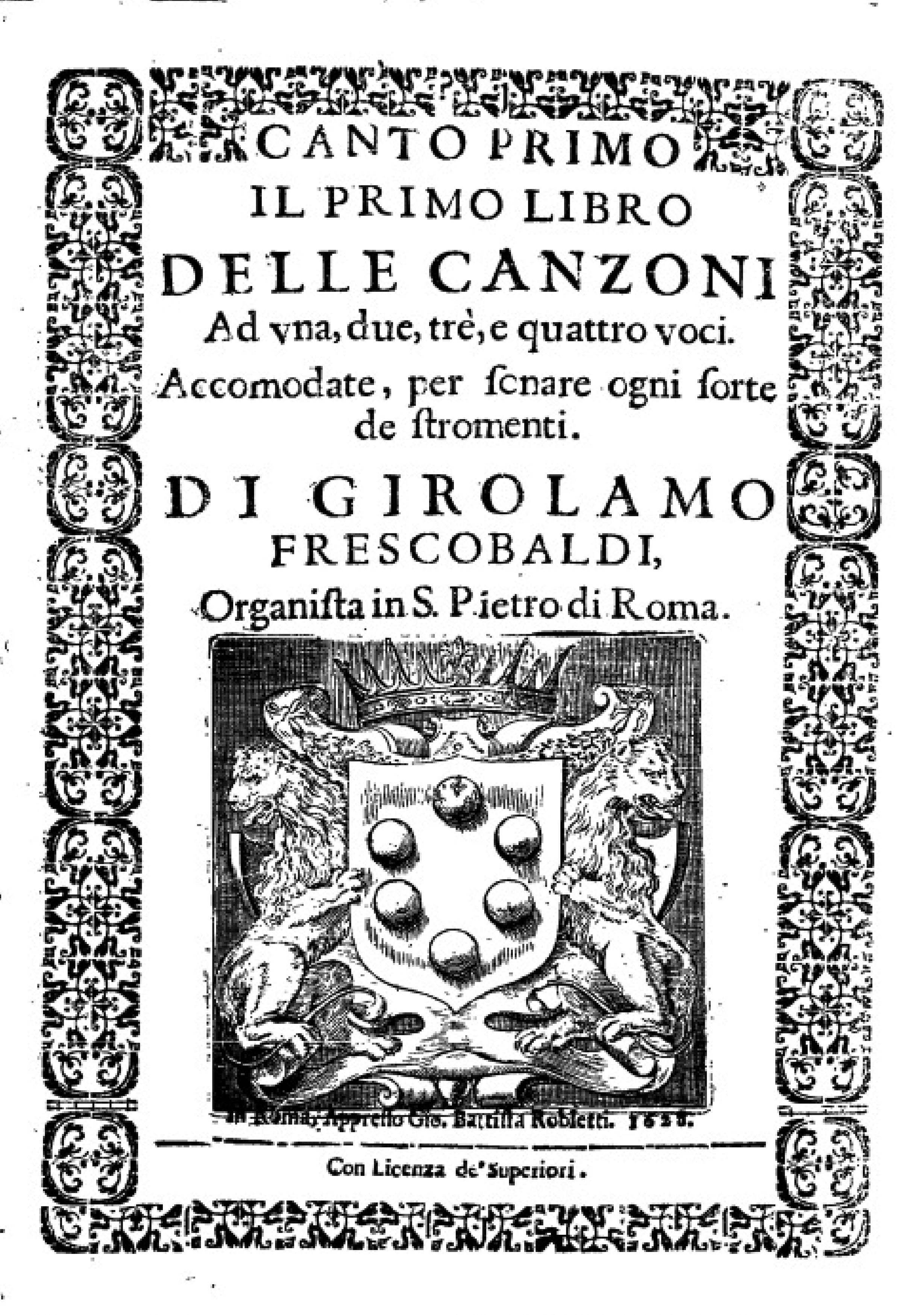 Title page of Girolamo Frescobaldi, Il Primo Libro delle Canzoni, Canto Primo part, Rome, Robletti, 1628